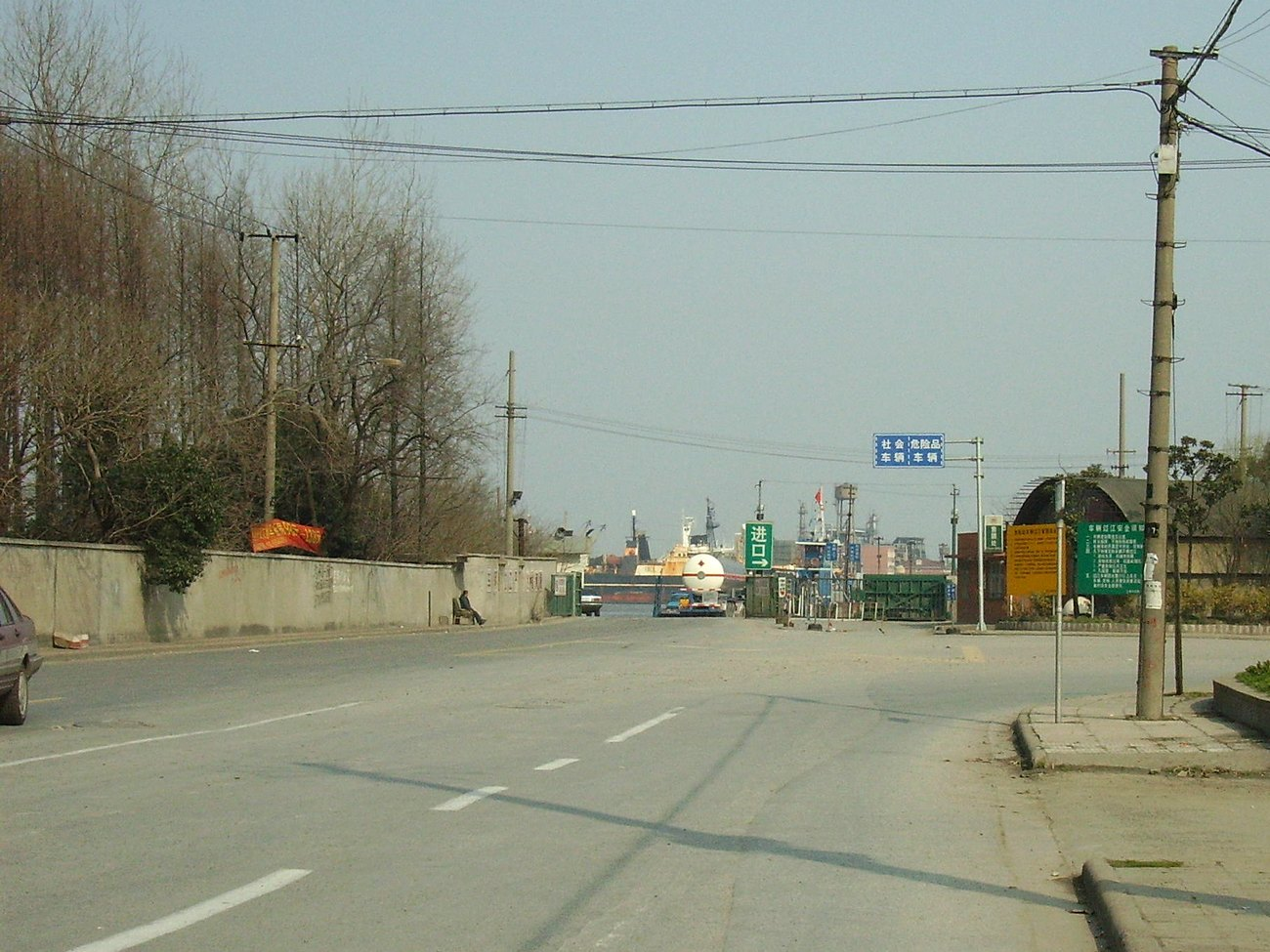 Nenjiang Ferry